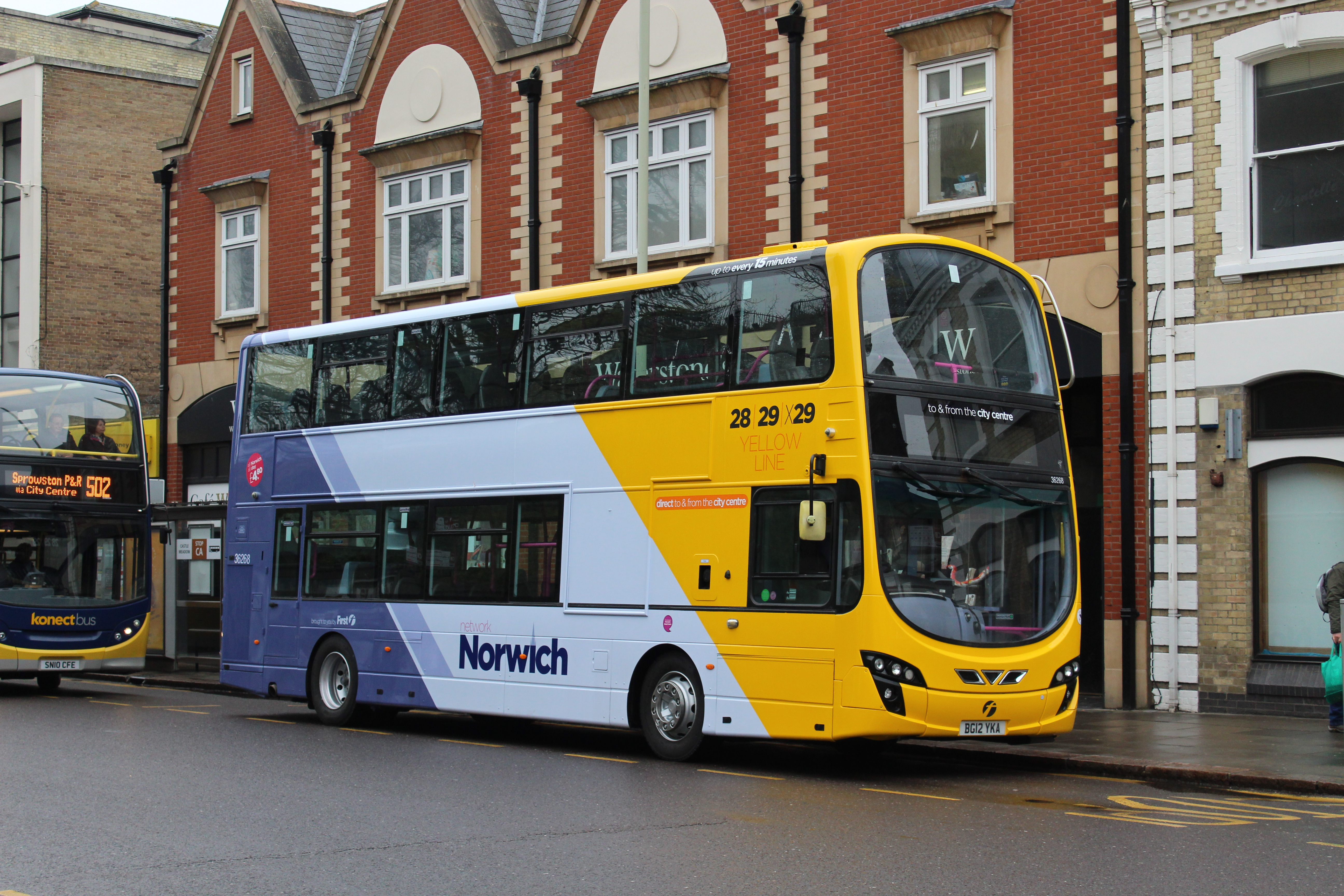 A Volvo B9TL/Wright Eclipse Gemini 2 carrying Network Norwich Yellow Line branding in Norwich, Norfolk